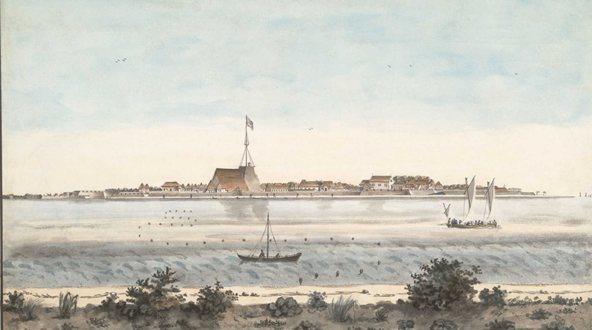 Water-colour painting of the fort of Cochin, from across the backwater by an unknown artist, c.1800. The image is inscribed: 'View of Cochin'. Cochin (now called Kochi) is situated on the Malabar coast in Kerala, southern India. The name probably derives from kocchazhi meaning the new or small harbour. In the 15th century the area attracted Christian, Arab and Jewish settlers from the Middle East and from 16th century onwards, the Portuguese, Dutch and British competed for control of its port and the lucrative spice trade. The Portuguese fort was built in 1503 and contains many historic buildings set in winding streets This image falls into the public domain as it was taken in India prior to 1 January 1951, and was not published in India after that date. It is in public domain in the United States as well as it was taken prior to 1 January 1951.